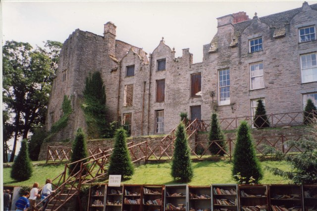 Hay Castle. The keep was built c.1200 by Matilda de Breos, although it has been much repaired since. The masion attached to it was built for James Boyle of Hereford c.1660. Hay is of course one of the towns devoted to second-hand book dealers, and a row of bookcases can be seen in the foreground.